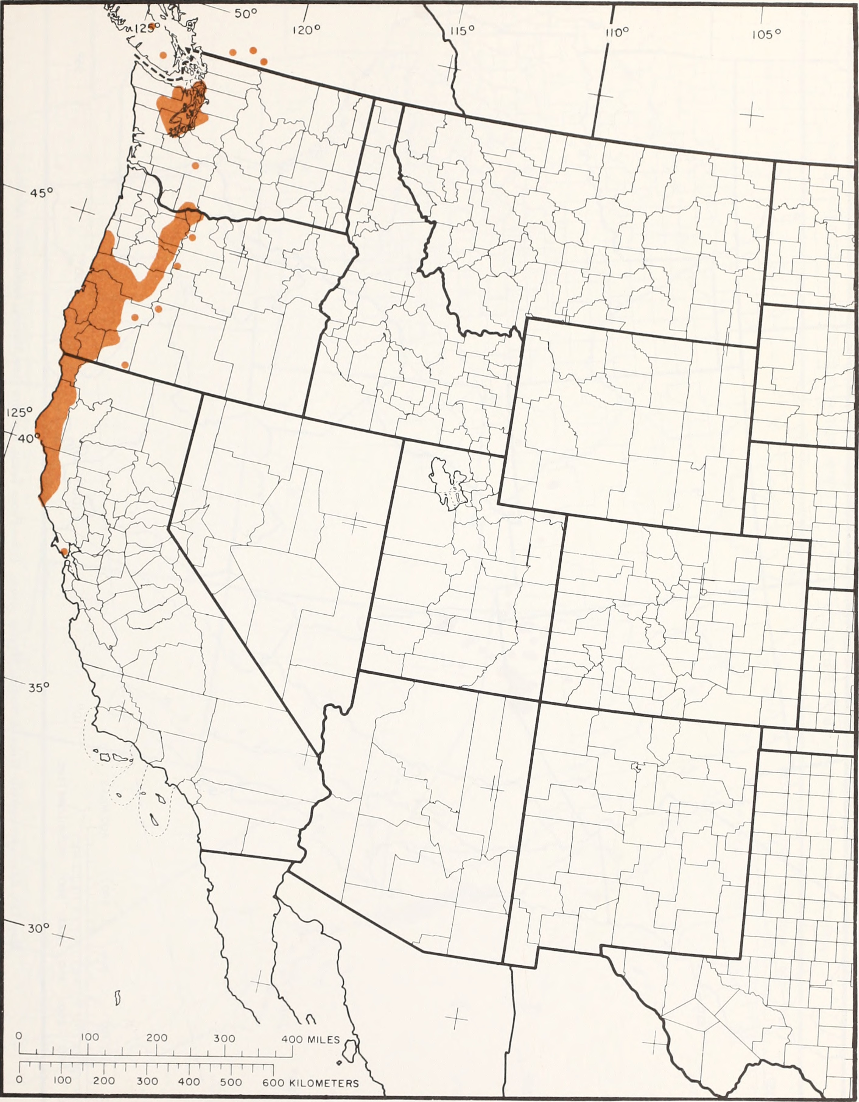 Title: Atlas of United States trees: volume 3. Minor western hardwoods Year: 1976 (1970s) Authors: Little, Elbert L. (Elbert Luther), 1907-2004 Subjects: Hardwoods; Trees Publisher: Washington, D. C. : U. S. Dept. of Agriculture, Forest Service Text Appearing Before Image: ' Text Appearing After Image: 100 I â I 200 300 400 MILES I I I I I I I I 1 I ' I ' ; ' I ' ; ' I ' ; ' I ' ; â I ' ; ' I ' 0 100 200 300 400 500 600 KILOMETERS Map l.)2. Rhododendron macrophyllum D. Don, Pacific rhododendron.